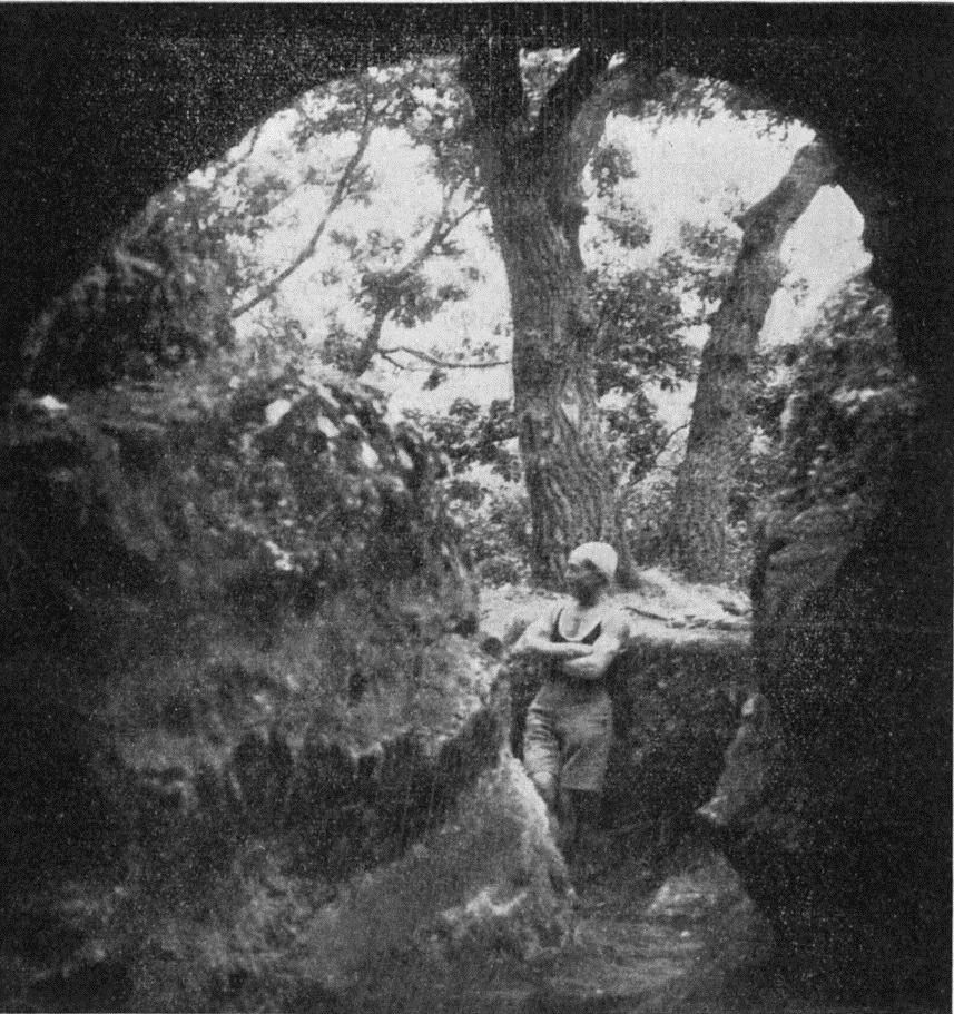 Entrance of Berva Cave in Hungary.